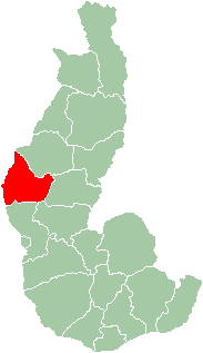 Location map of Morombe region in Toliara province.